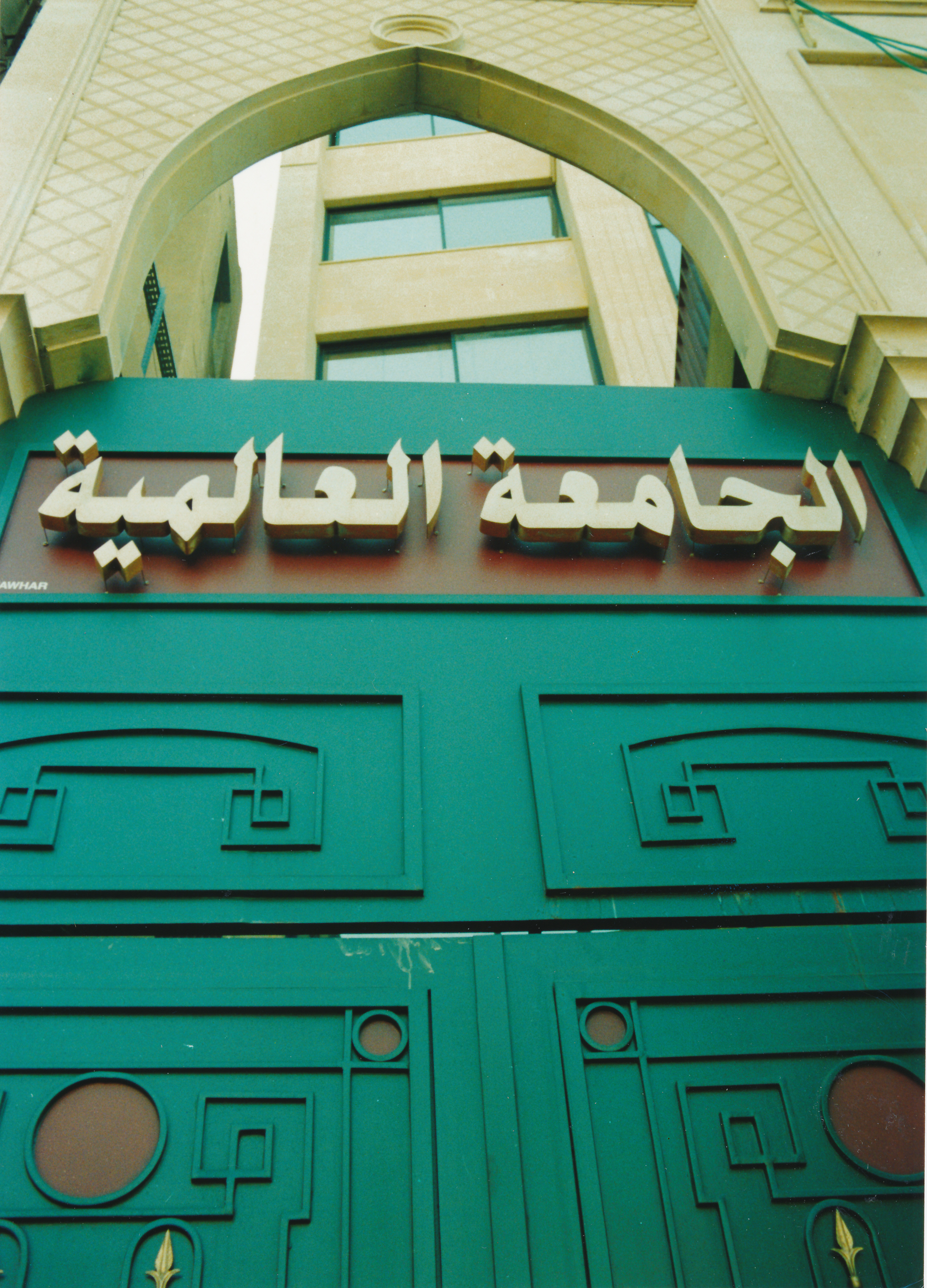 gu door